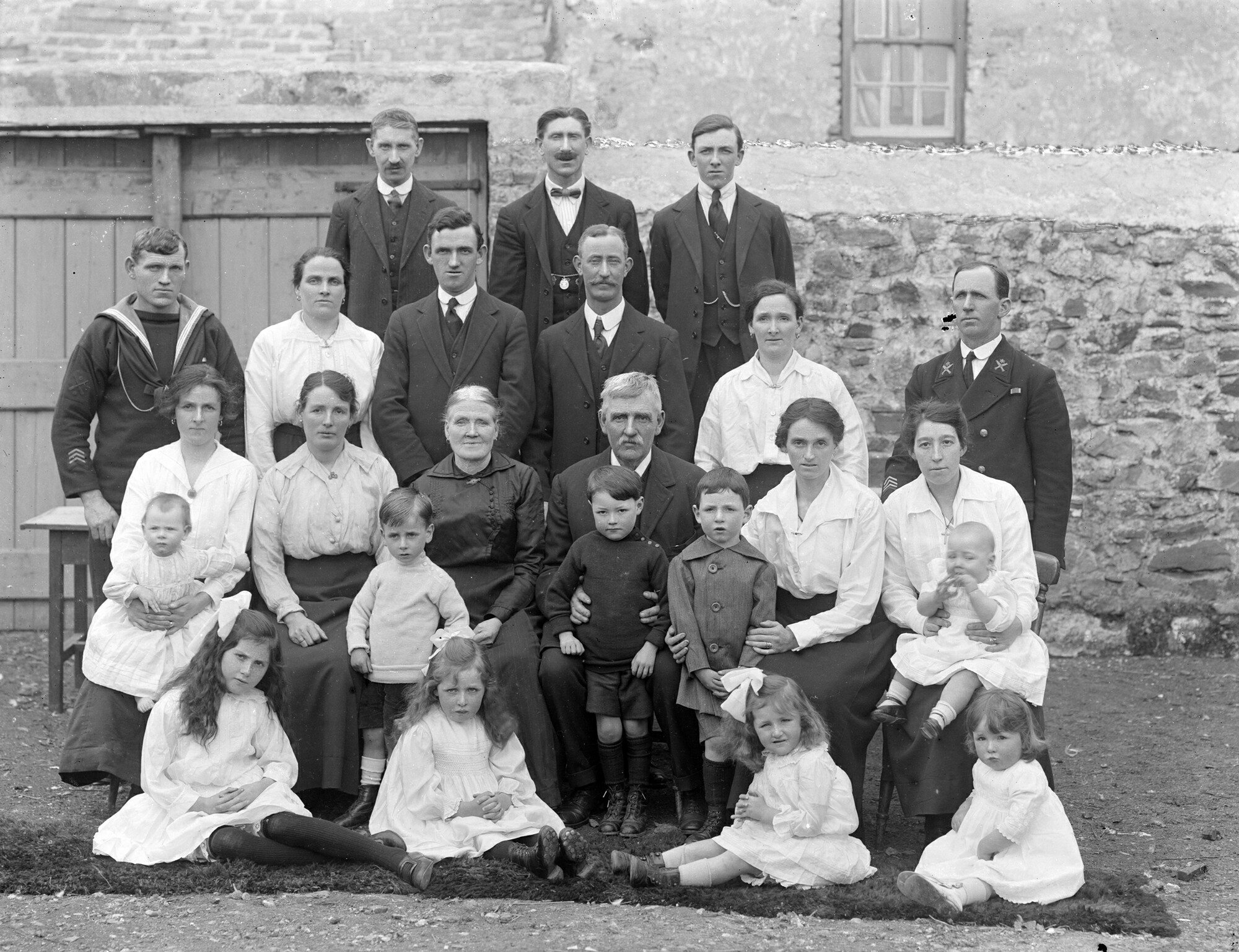 An interesting family group, including a sailor on the left, and an employee of the White Star Line perhaps on the right. The photo was commissioned by Mr Flynn of 45 Mayors Walk, Waterford, as was this photo taken 3 years later on Monday, 5th July 1920. That 1920 photo was taken outside Mount Sion CBS, but we unfortunately have no idea where this one was taken... Date: Saturday, 7 April 1917 NLI Ref.: P_WP_2811